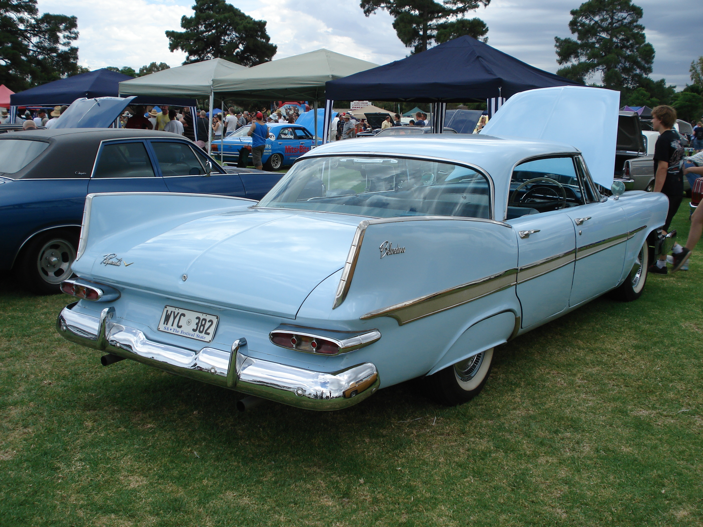 1959 Plymouth Belvedere 4-door Hardtop. The fact that it is right hand drive and that it was displayed with an Australian '59 Plymouth Belvedere brochure suggests that this example is an Australian assembled Belvedere Nov 26, 2018...I would be more likely to believe this model was made and built in Canada for export. Chrysler of Canada made many late 50's car for this purpose complete with right hand drive and speedometers in Kilometers Per hour, the net has other models that went to Europe and even South Africa from this era. To add, although beautiful this car is a out of place egg in Australia. The tooling alone to be built there would not justify the cost for maybe a handful of cars, cars that share no resemblance to Australian built Chrysler's of the era. No doubt someone had a deep pocket down under back then...... PS, Ford and General motors did the same, a rare handful at the time and as this Plymouth even rarer today.